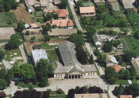 Apátfalva, Csongrád County, Hungary